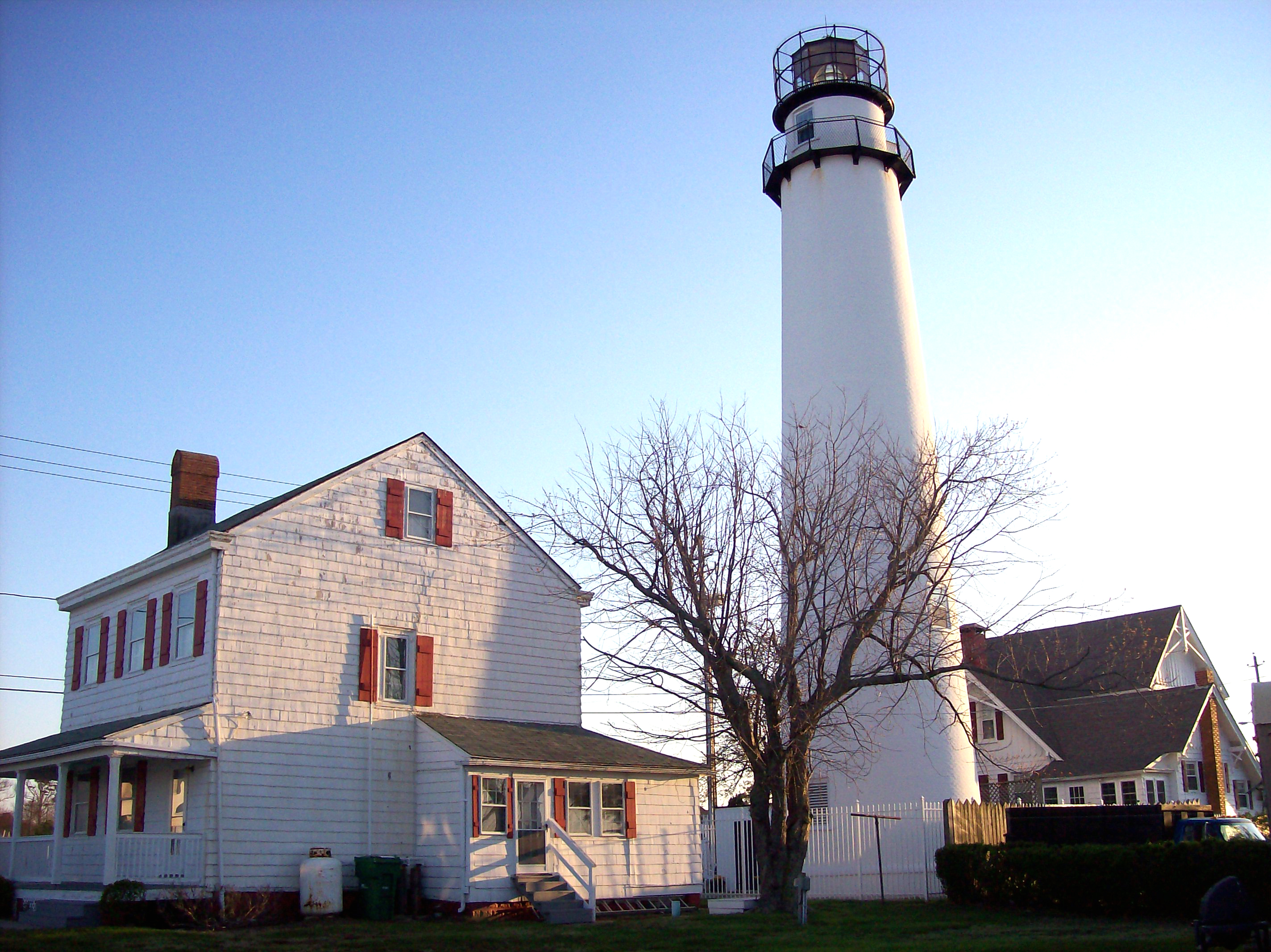 Looking southwest. April, 2008.